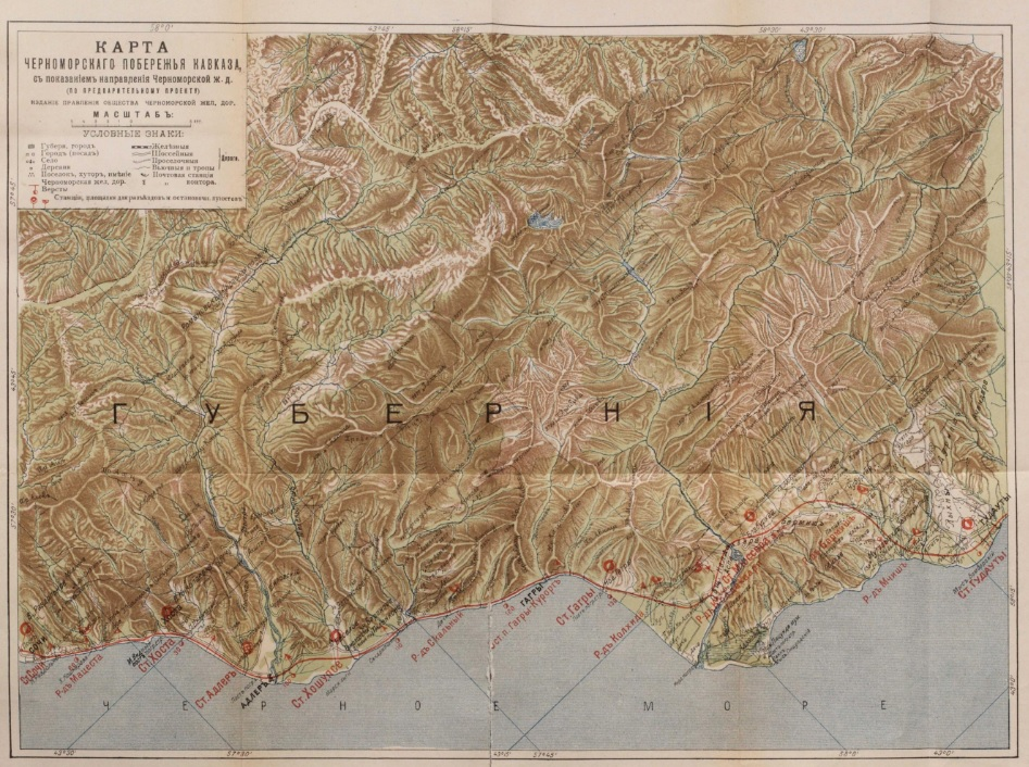 Map (1912) from the illustrated album The Black Sea Railway (Tuapse-Kvaloni) under construction. - St. Petersburg: Pravl. Chernomor Island. F. Etc., 1913. - 116 p., 14 liters. Maps. 24 - p.68